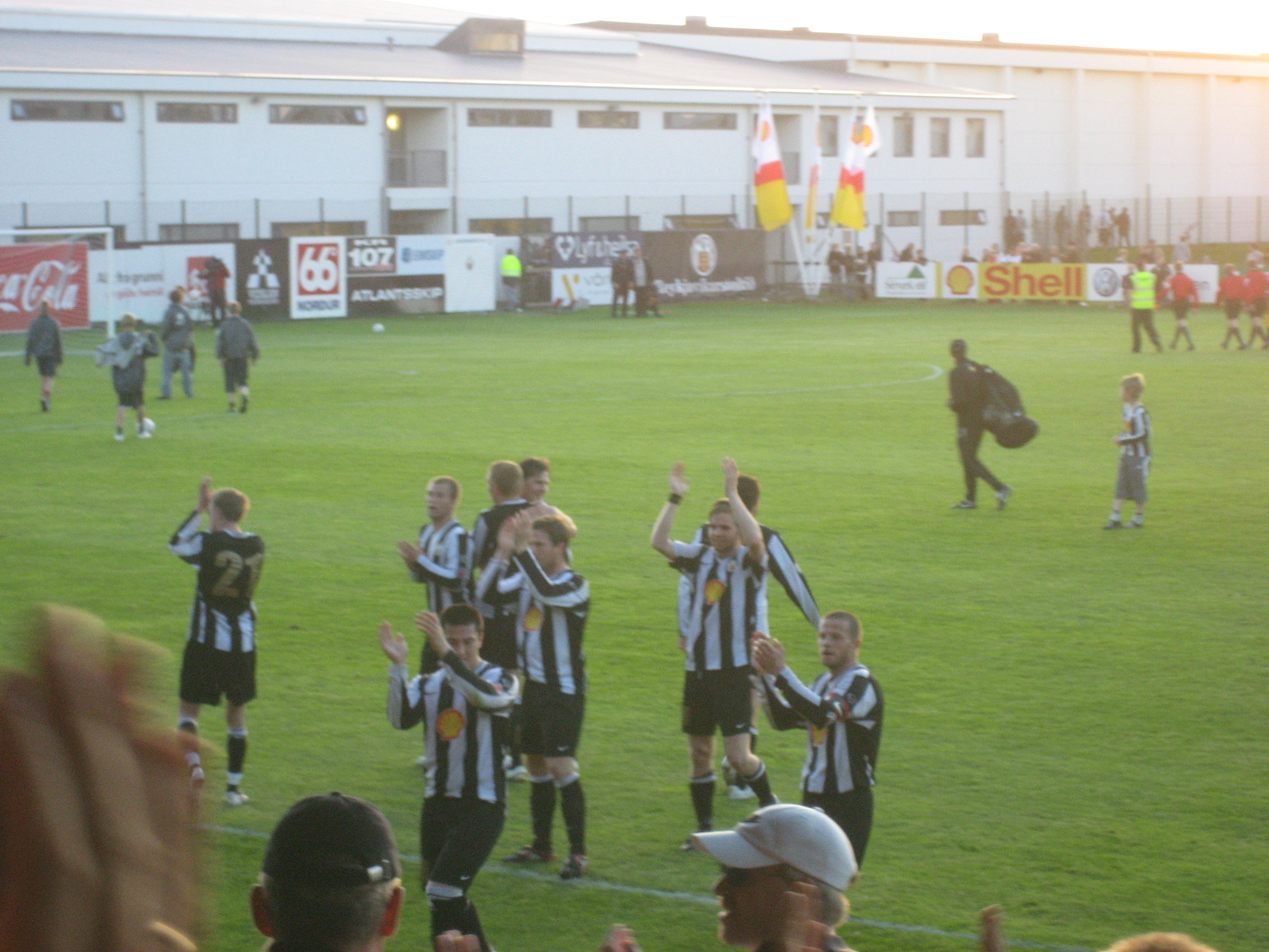 KR Reykjavik players celebrate after enjoying a 2-0 win over Fjölnir at their home ground